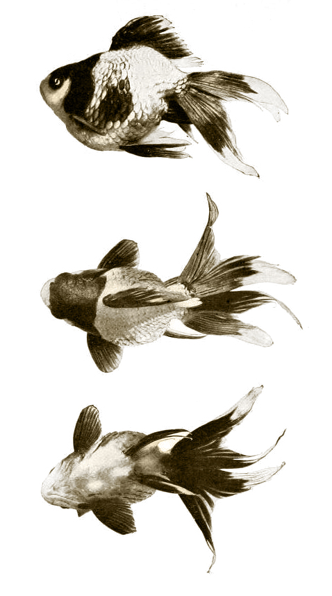 Animal - Fish - Varieties of Goldfish - Ryukin